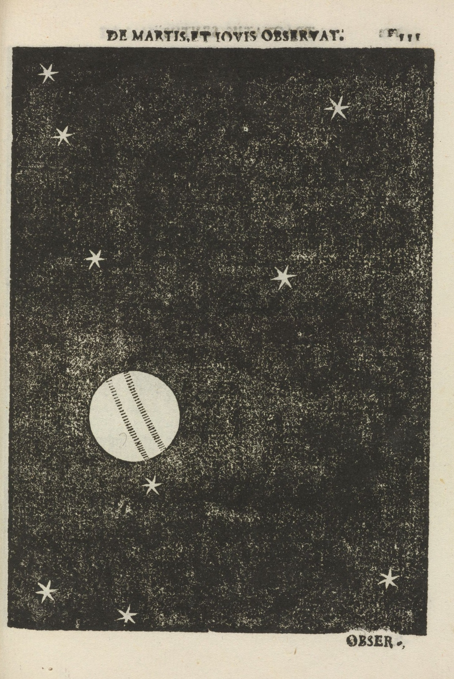 Illustration, page 111, from Novae coelestium terrestriumque, Neapoli: 1646, by Francesco Fontana (1602-1656). *IC6 F7342 646, Houghton Library, Harvard University